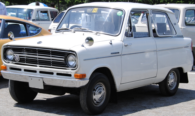 Mitsubishi Minica Deluxe